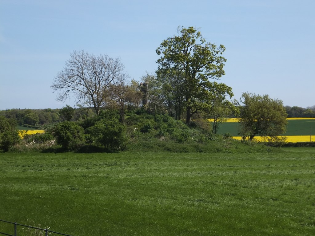 Tumulus near Knowlton church